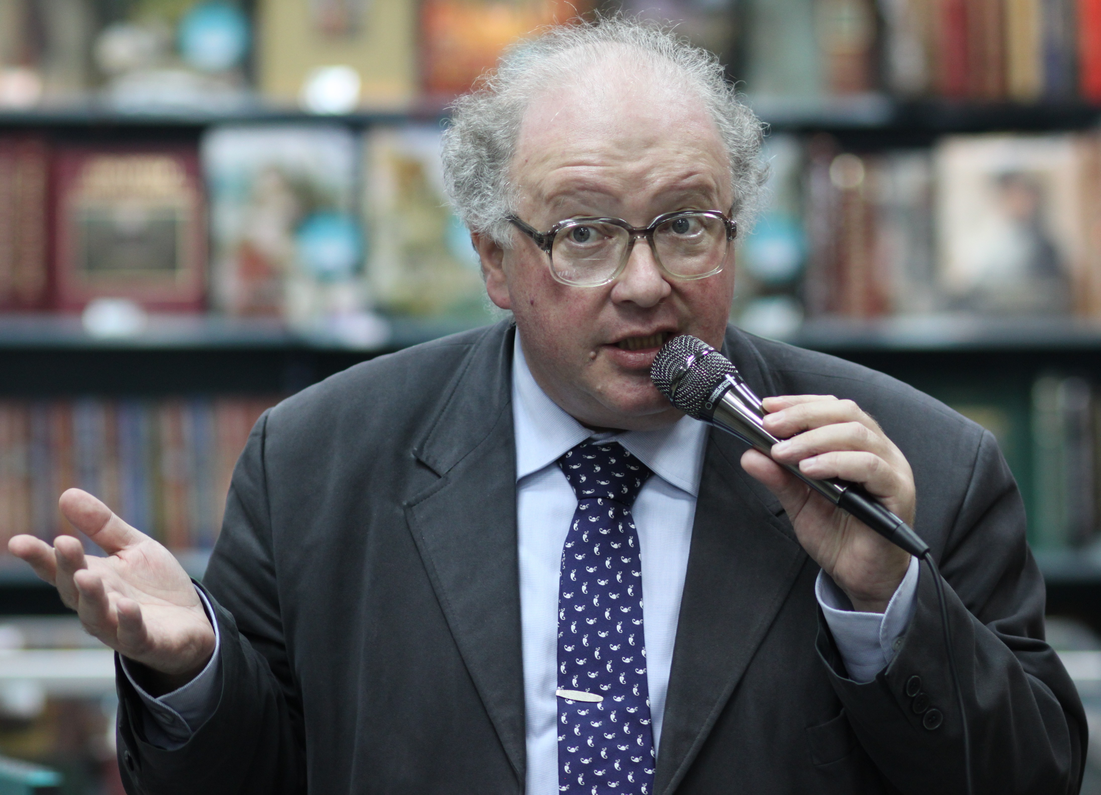 Pavel Lyubimtsev, Russian actor and television presenter